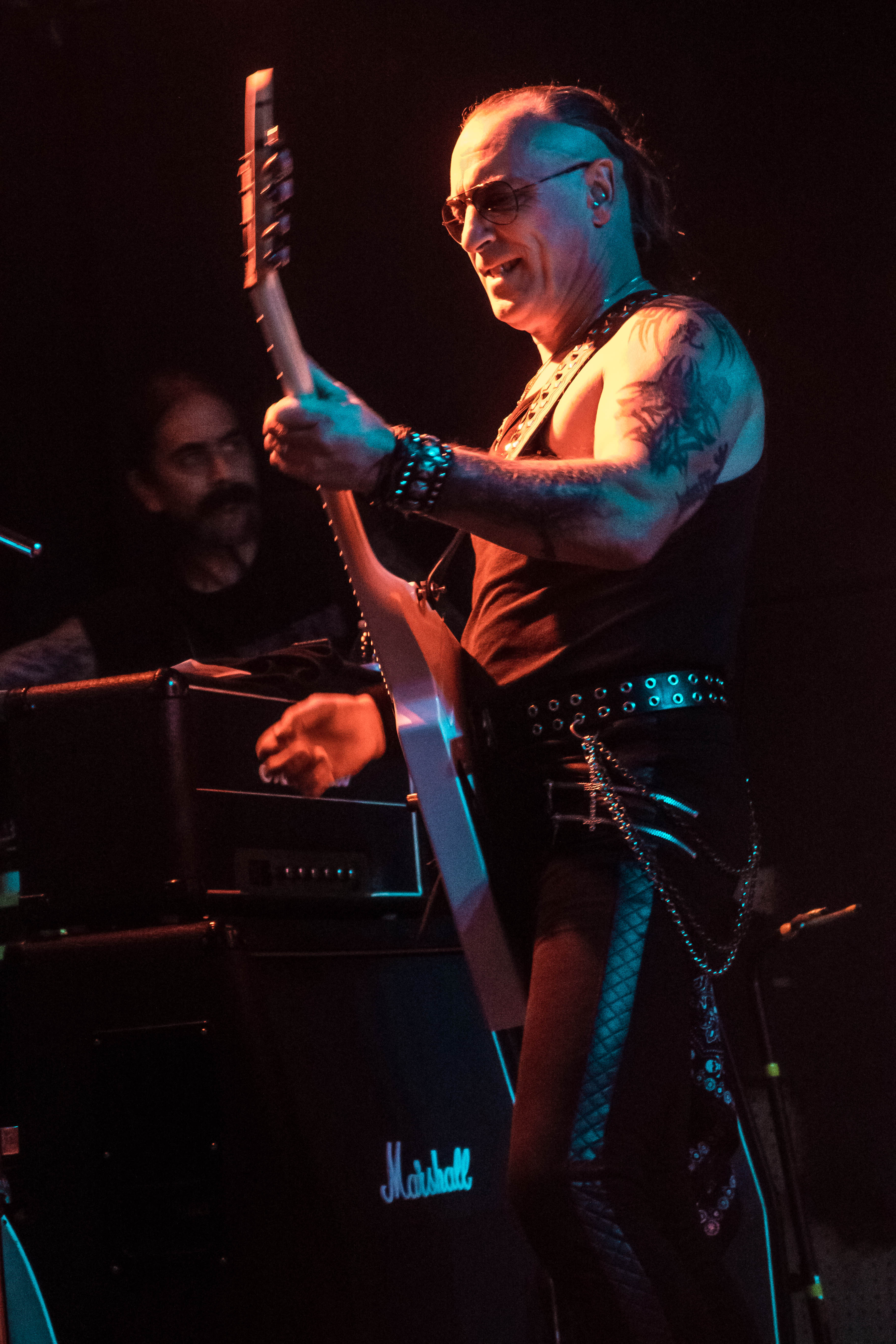 Venom Inc. performing at Saint Vitus Bar (Brooklyn, New York), October 3, 2017. Venom Inc. performing at Saint Vitus Bar (Brooklyn, New York), October 3, 2017.